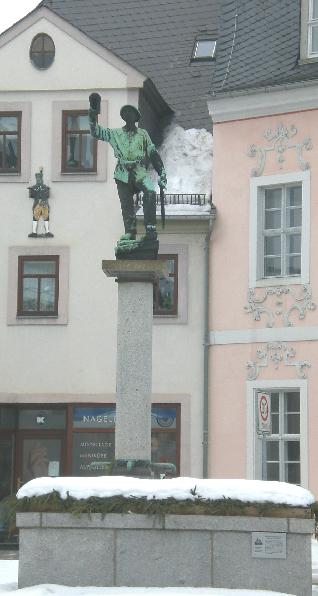 Miner's water well „Neuer Anbruch“ in Schneeberg, Ore Mountains, Saxony, Germany.